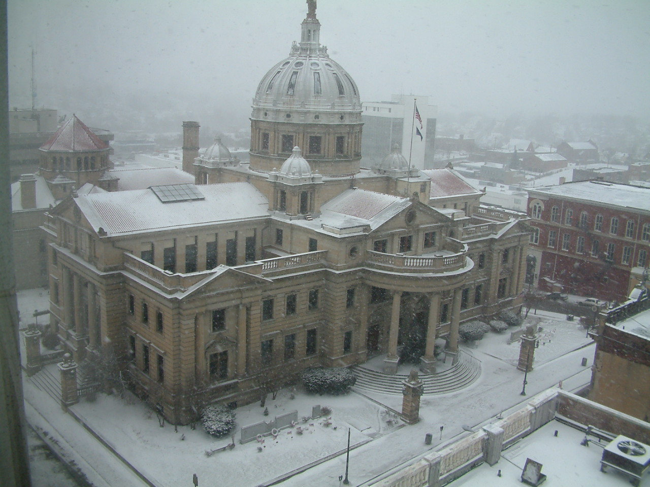 Front and southern side of the Washington County Courthouse, located along South Main Street in downtown Washington, Pennsylvania, United States. Built in 1900, the courthouse is listed on the National Register of Historic Places. Viewed from the top floor of the nearby George Washington Hotel.